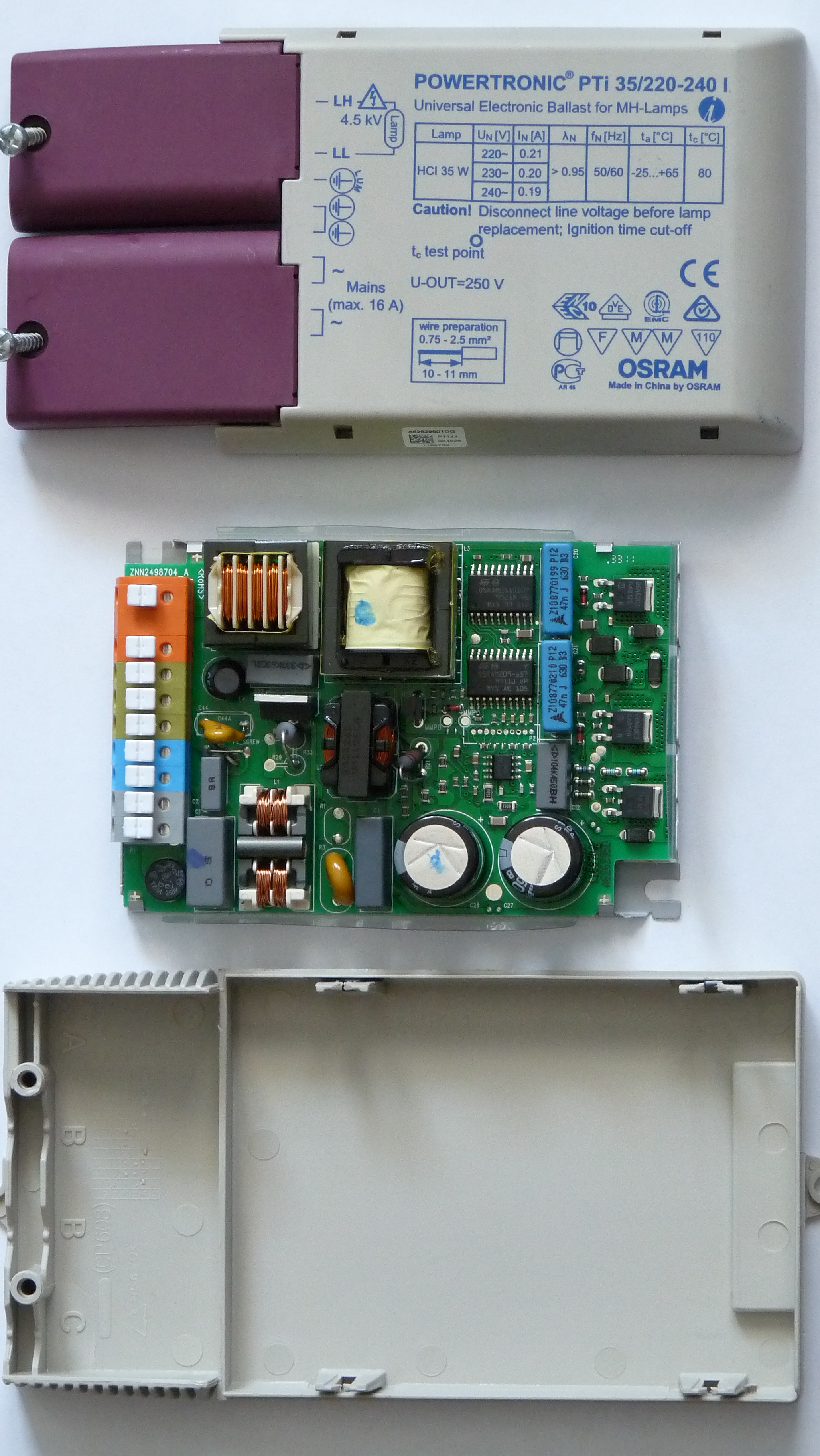 electronic power supply for metal halide lamps